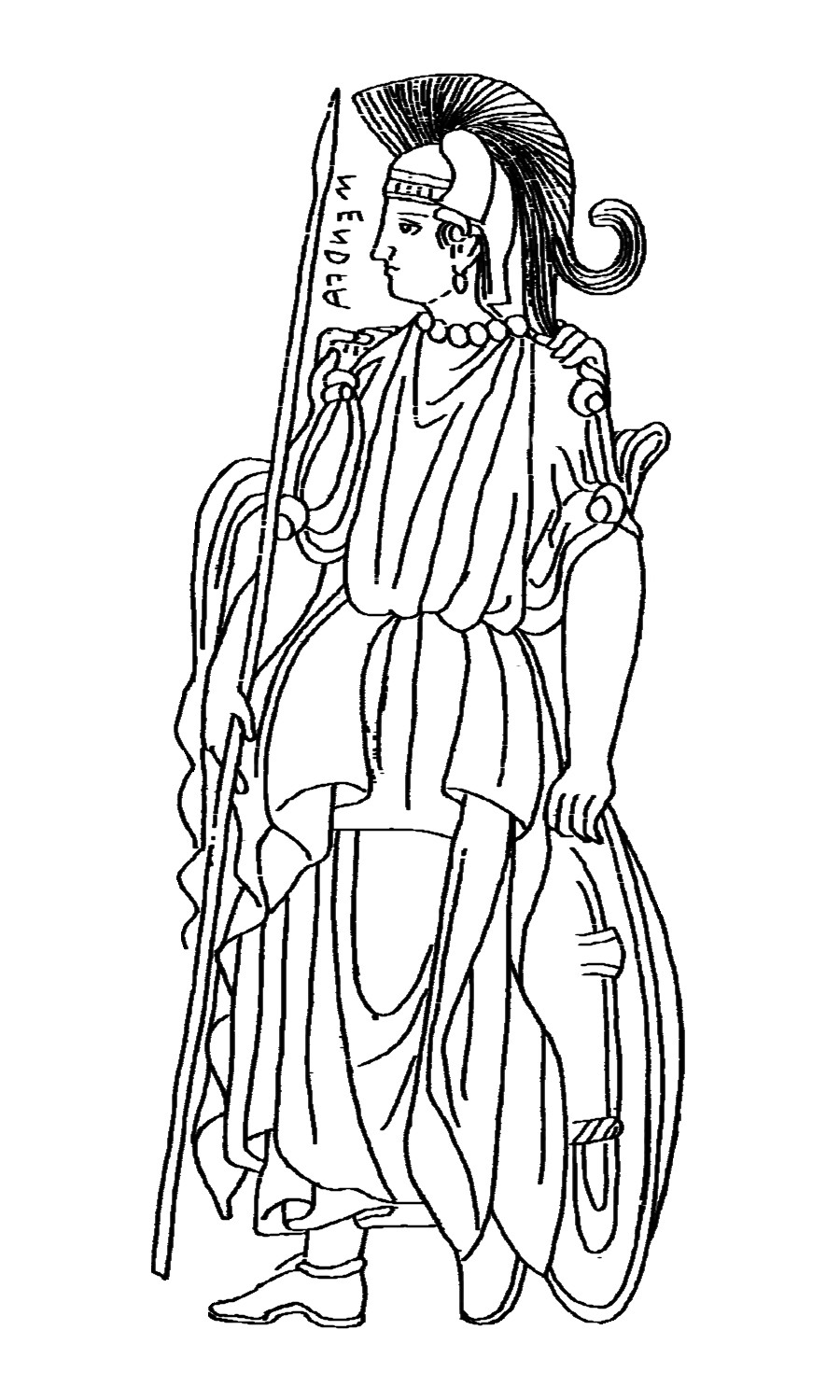 Etruscan mirror with Hercle, Menrva and Apulu. Detail with Menrva.